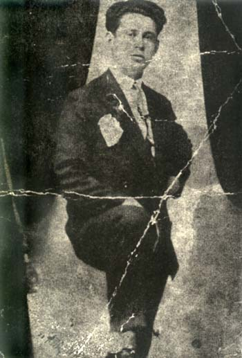 A portrait of the Macedonian poet Kole Nedelkovski.